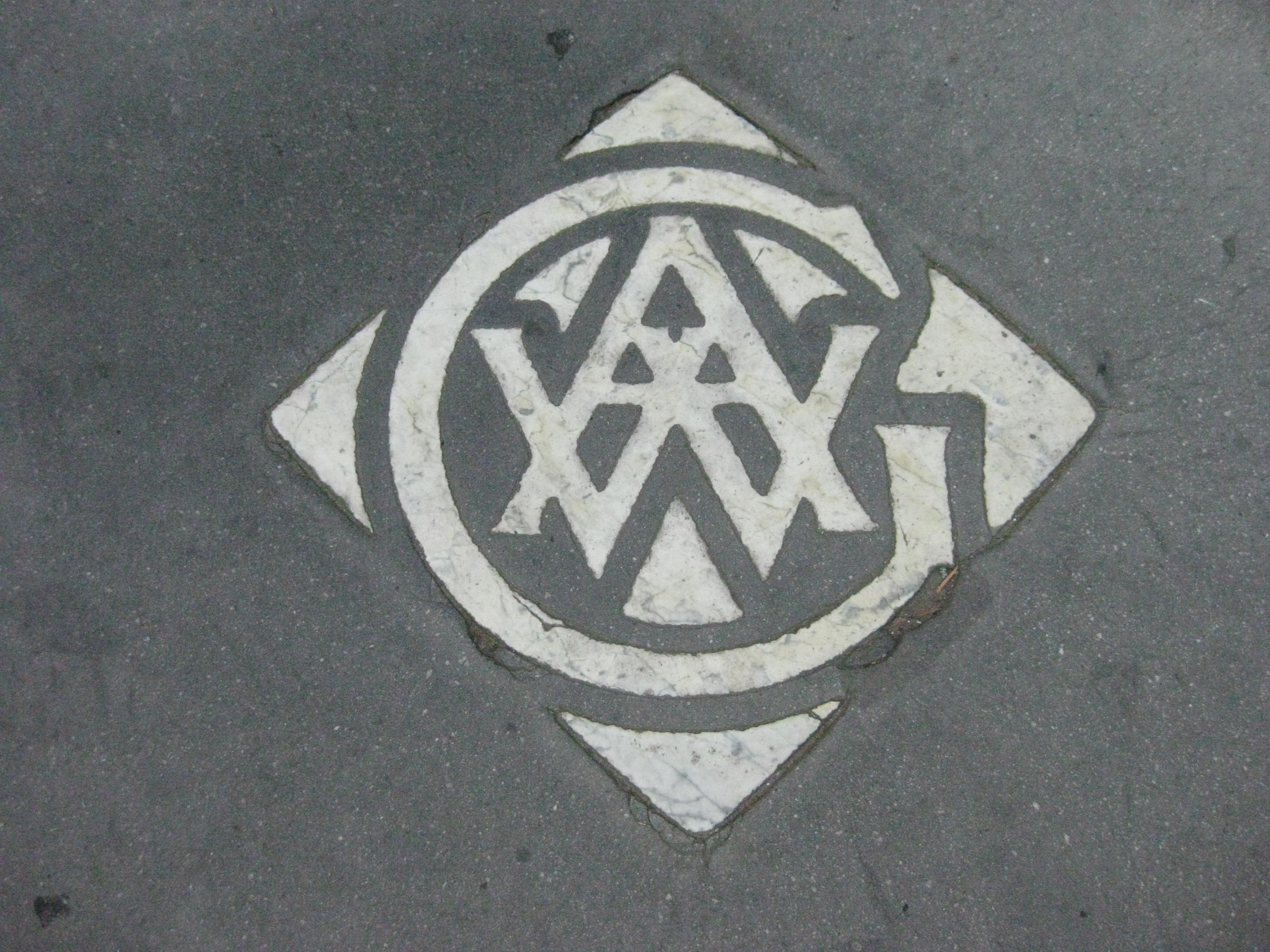 Art Workers Guild logo